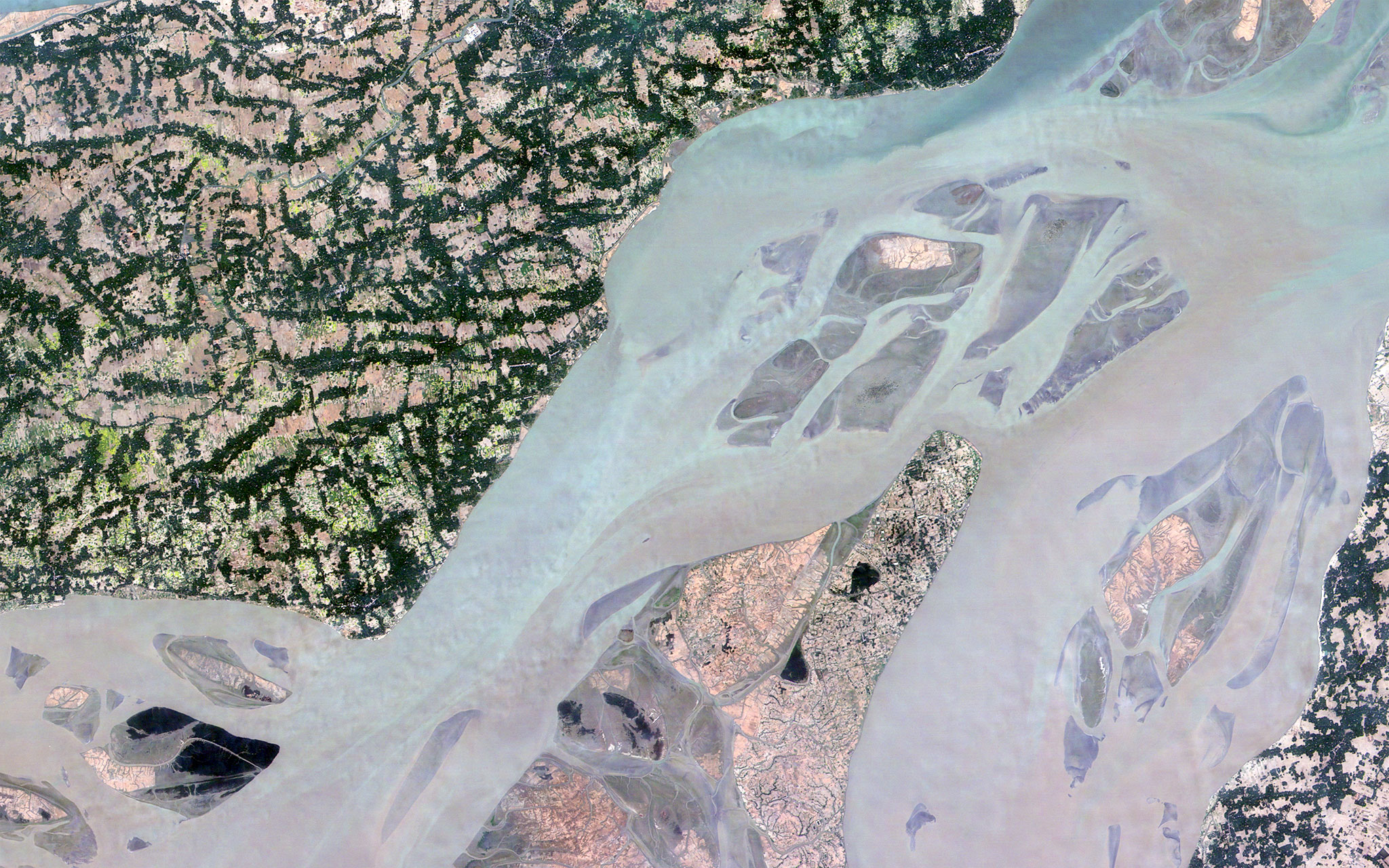 Meghna River and Bhola Island in Bangladesh, as viewed from Hodoyoshi-1 satellite.